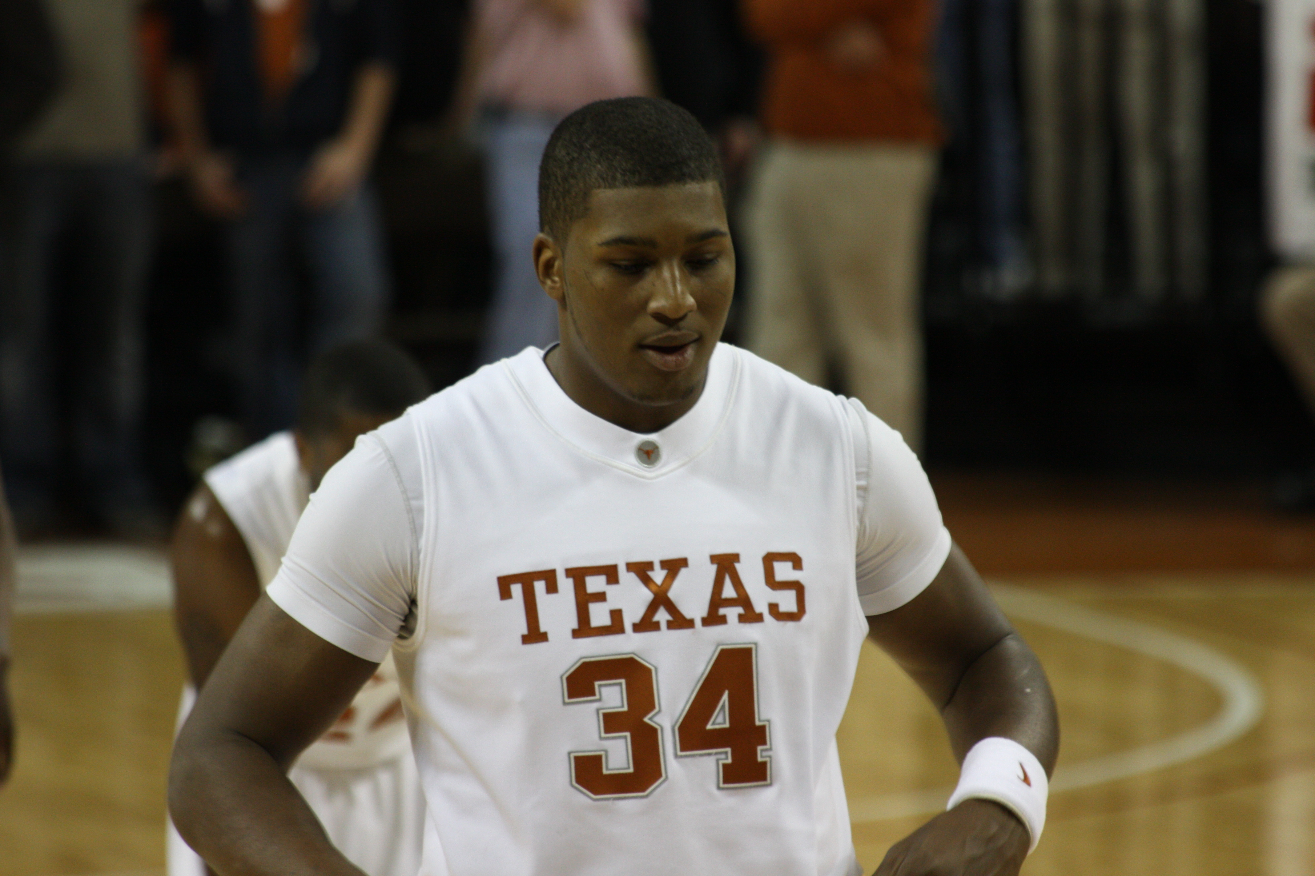 Dexter Pittman during a Texas Basketball Game